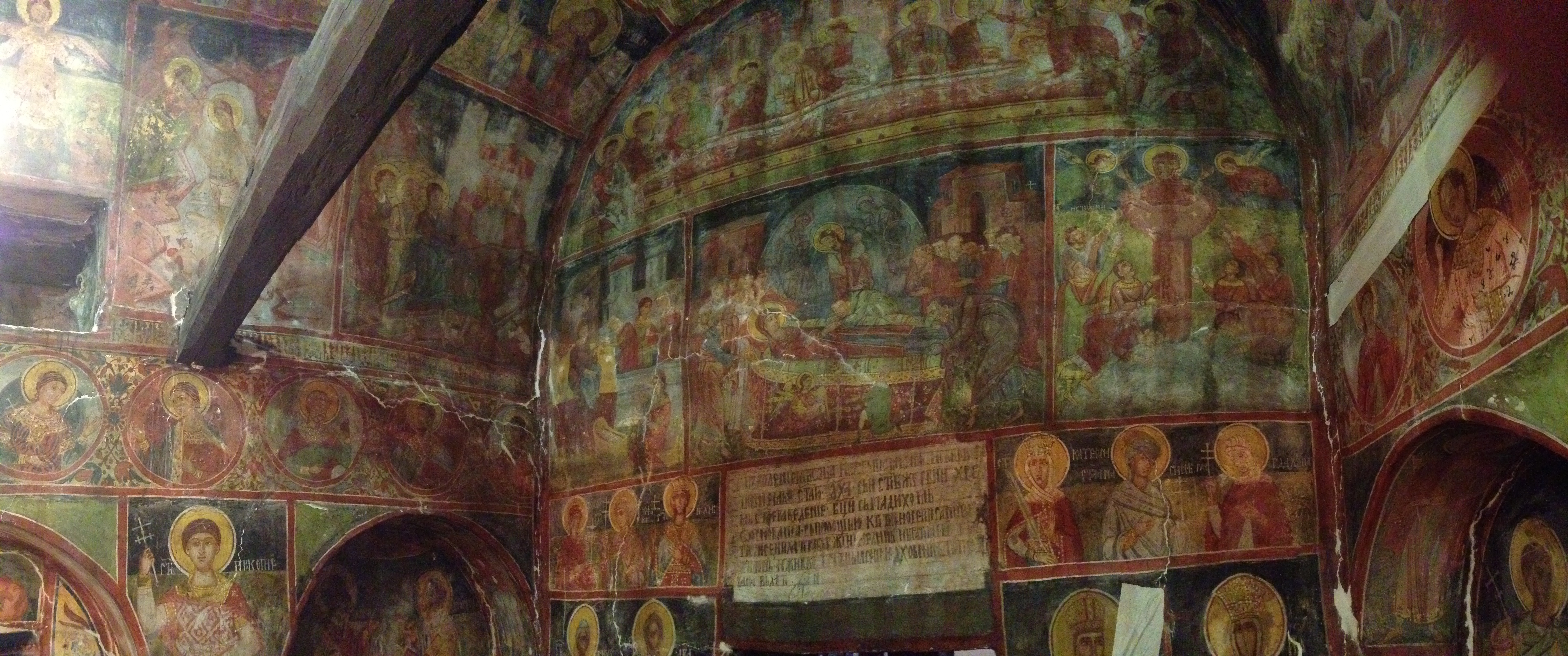 Western wall, the cycle dedicated to the Theotokos in The Monastery of the Theotokos in the Sićevo, Serbia